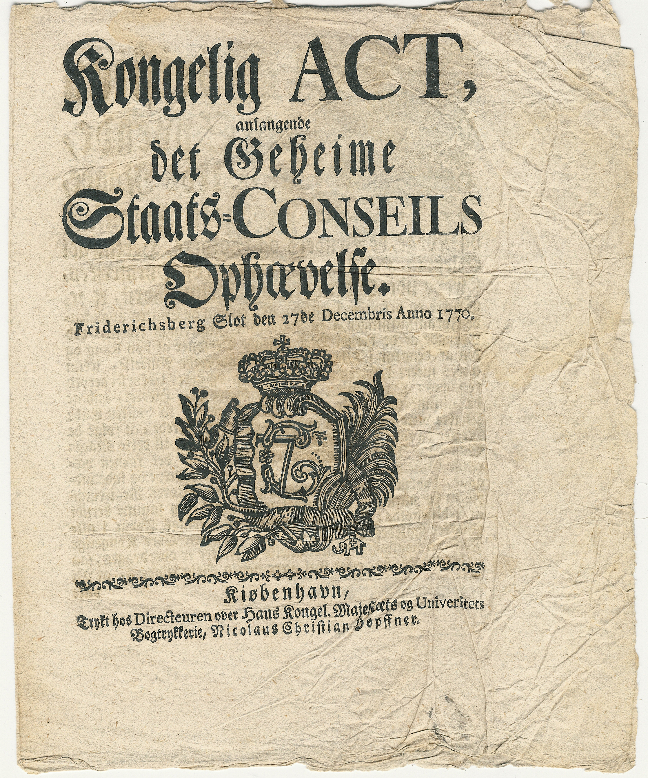 The document from December 1770 proclaiming the dissolution of the Geheime Stats Conseil (Secret State Council) by Johann Friedrich Struensee, officially marking his ascent to power in the state of Denmark-Norway.